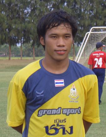 Dassakorn Thonglao, Thai footballer playing in the national team